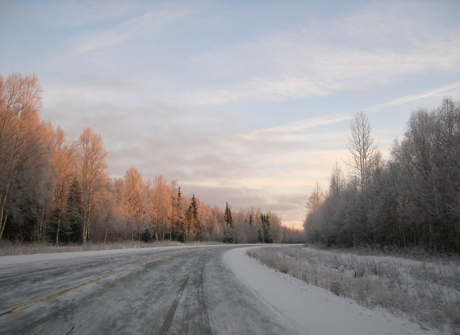 Parks Highway to Fairbanks, Alaska This is a retouched picture, which means that it has been digitally altered from its original version. Modifications: Cropped. Modifications made by Imzadi1979.